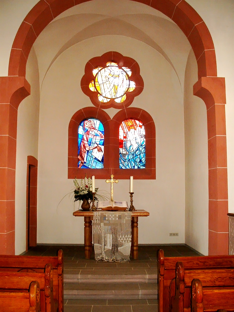 Altar of the Lutheran church, Prüm, Rhineland-Palatinate, Germany